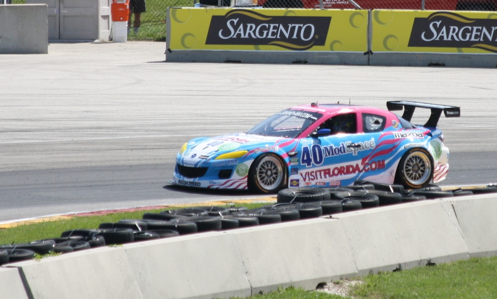 The GT sports car of Charles Espenlaub and Joe Foster racing at an event at Road America. The car is usually driven by actor Patrick Dempsey.